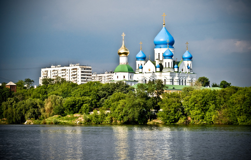 Nikolo-Perervinsky Monastery